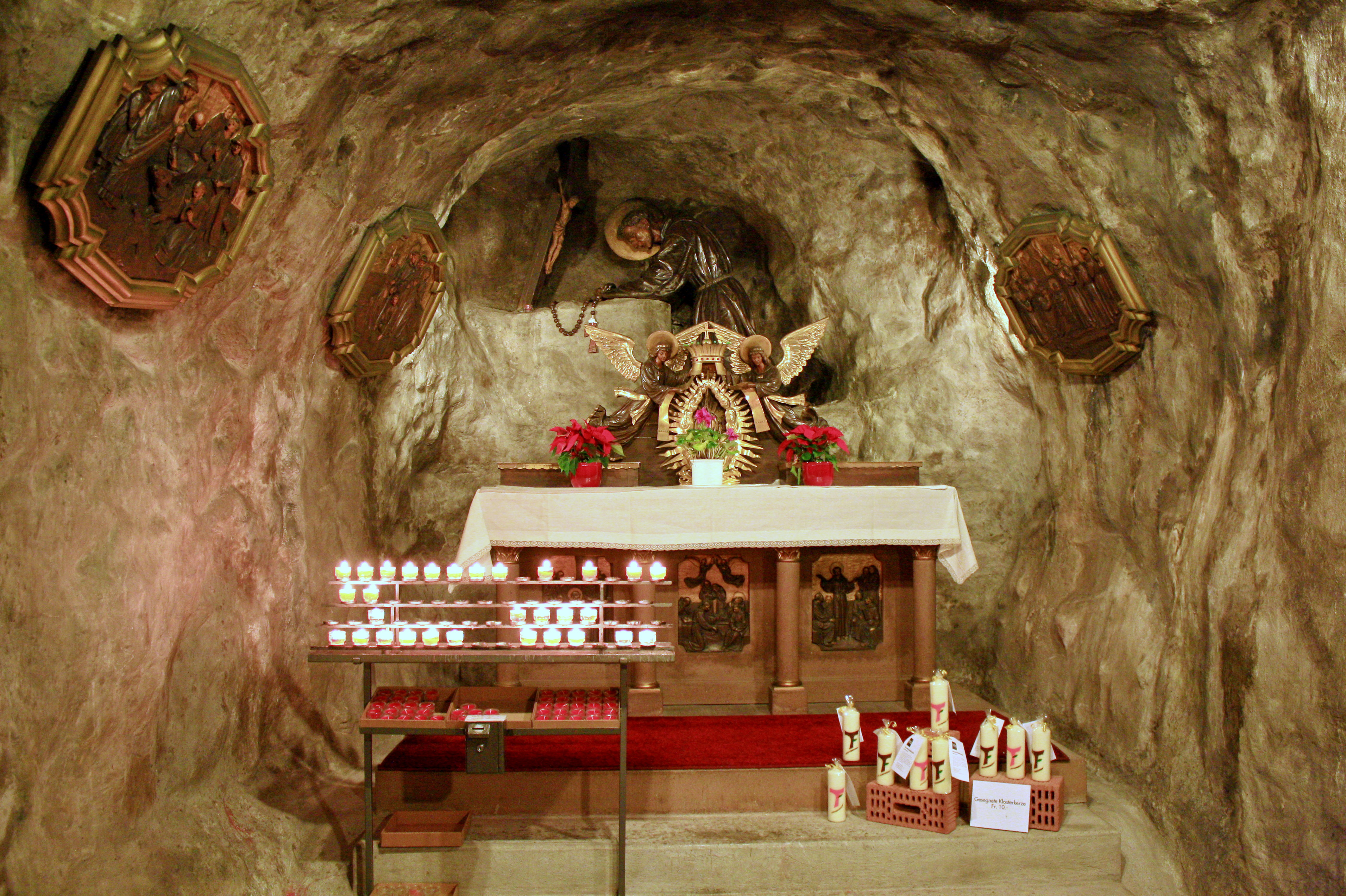 Antoniusgrotte inside the church of the Kapuzinerkloster (Capuchin monastery) in Rapperswil (SG)